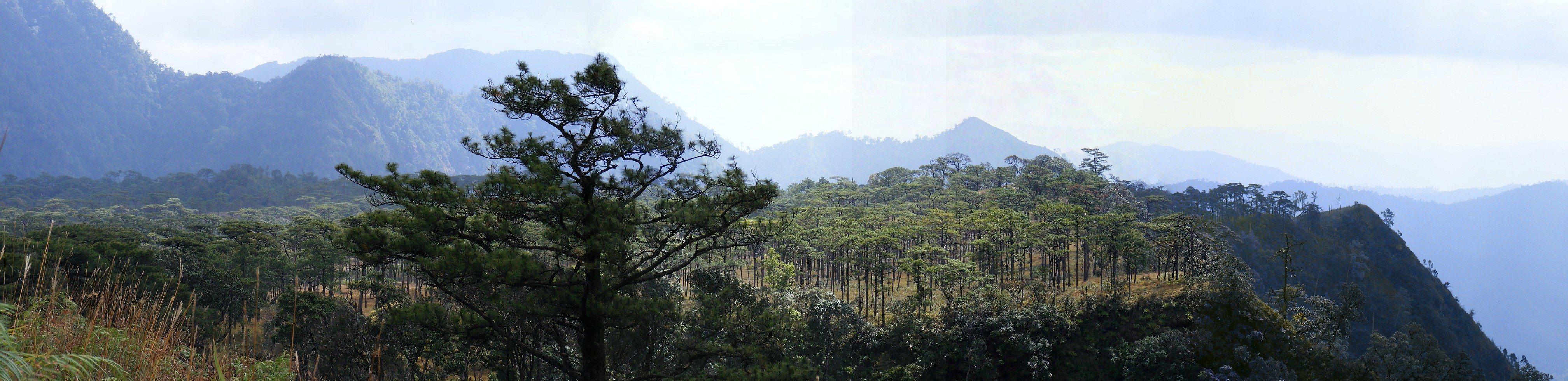 Phusoidao National Park Location:Uttaradit Province, Thailand.